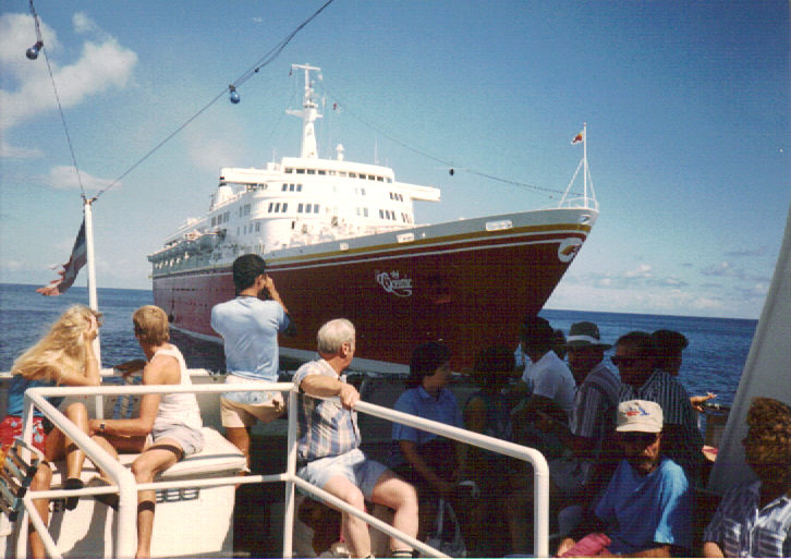 The SS Oceanic as the StarShip Oceanic in Premier Line colors in September 1987; most likely at Out Island